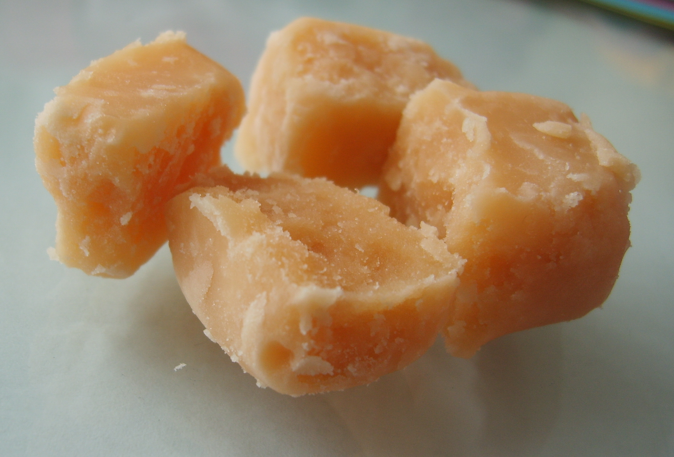 A photograph of Butter Tablet